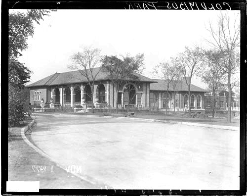 Driveway and side of the Boathouse building in Columbus Park, Chicago, IL